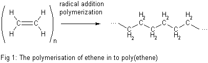 equation of polymerization of ethene into polyethene